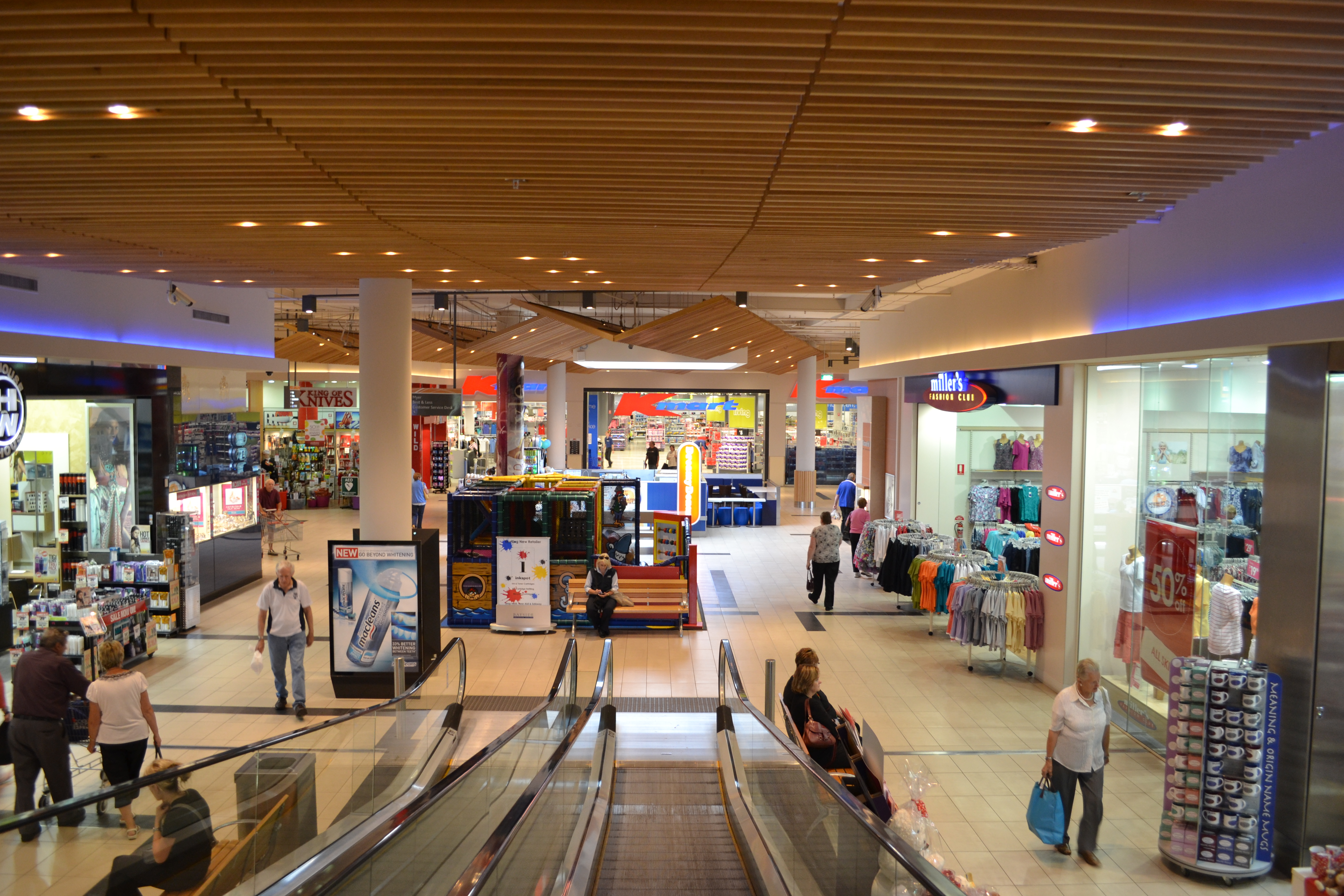 View inside Bayside Shopping Centre looking towards Kmart.